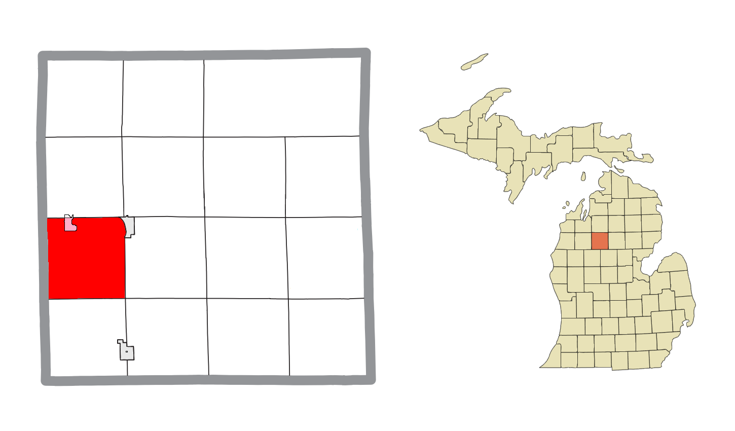 Lake Township (Missaukee), MI